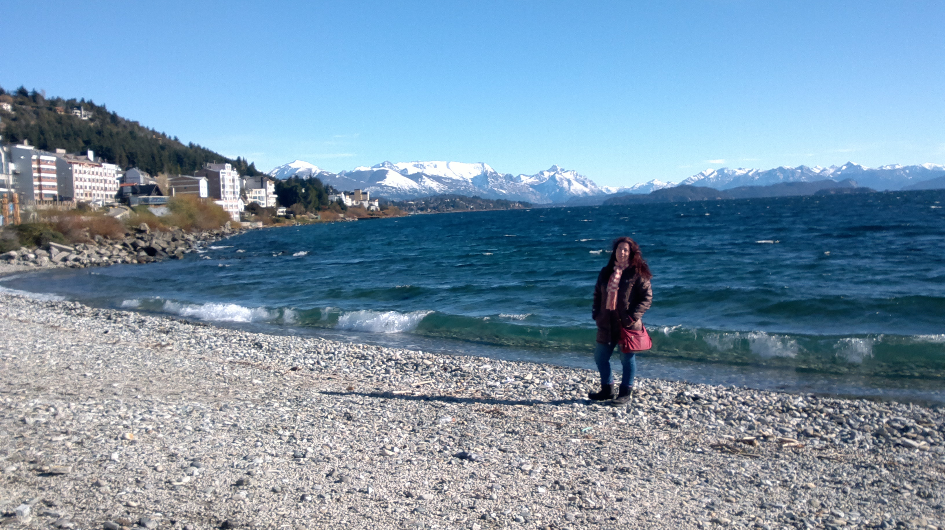 Nahuel Huapi lake 51